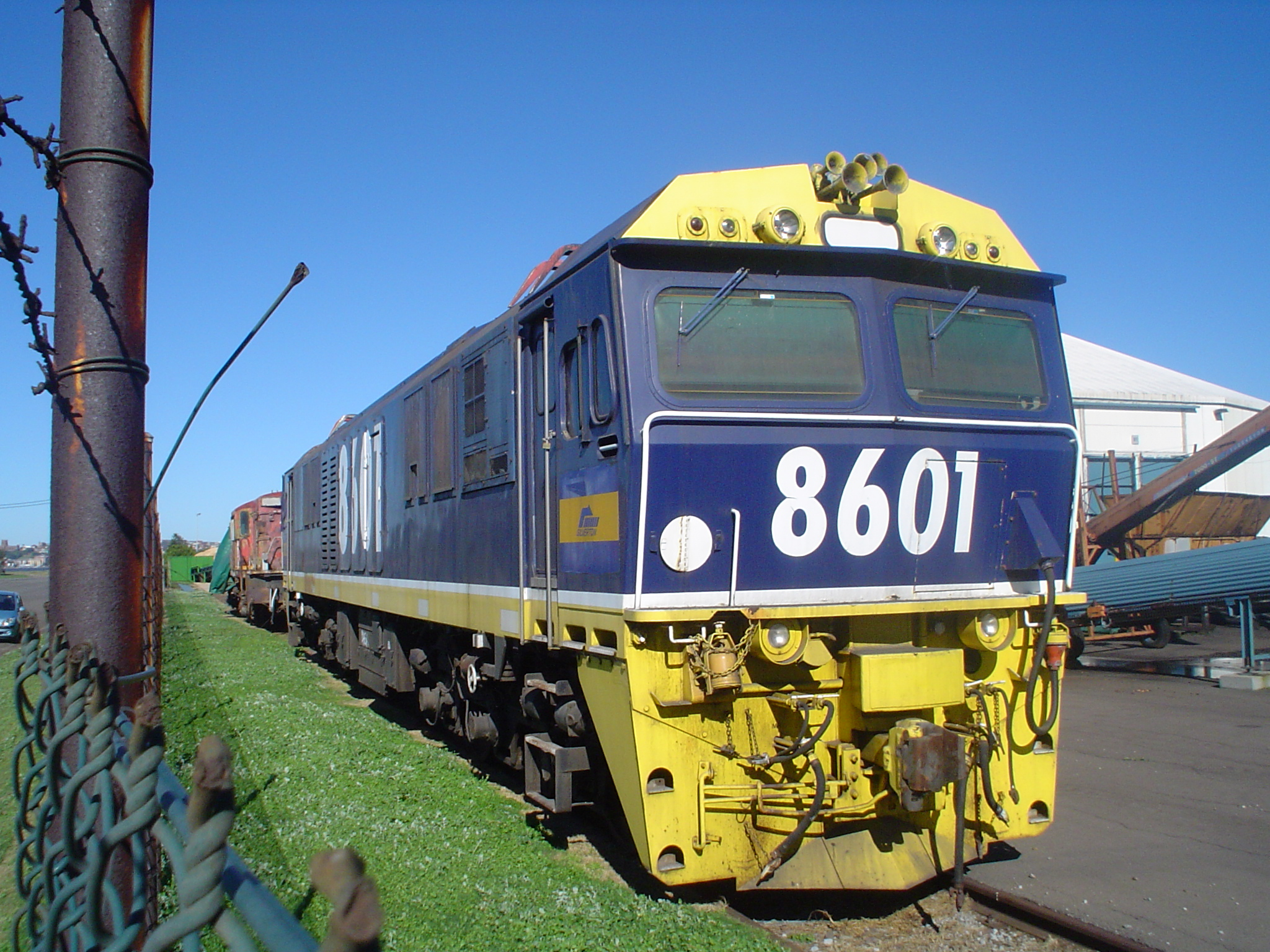 Dorrigo Steam & Railway Museum (DS&RM) 8601 Kooragang Island ex Southern & Silverton